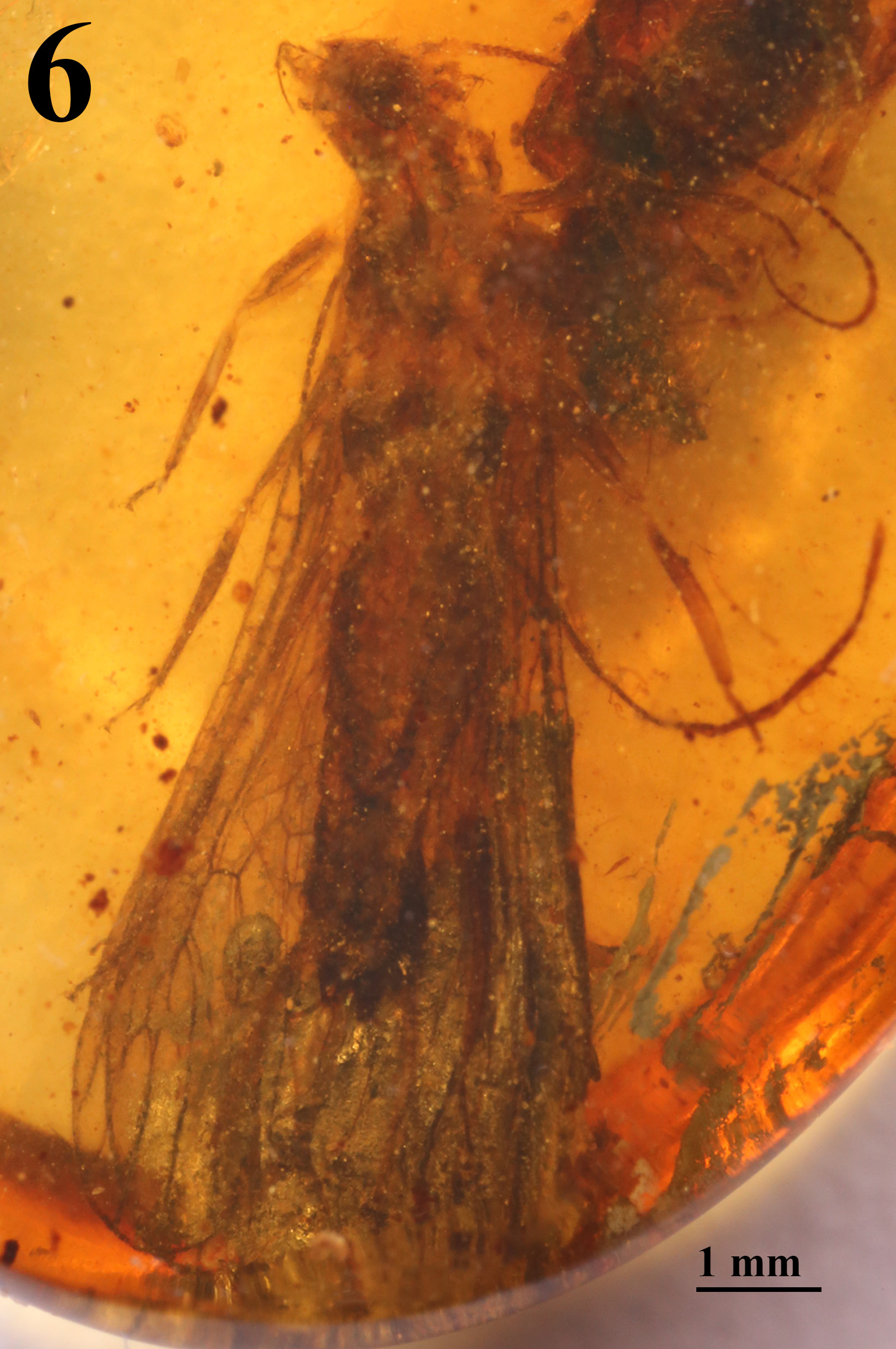 FIGURE 5–6. Largusoperla borisi, Adult habitus, 6, ventral view.